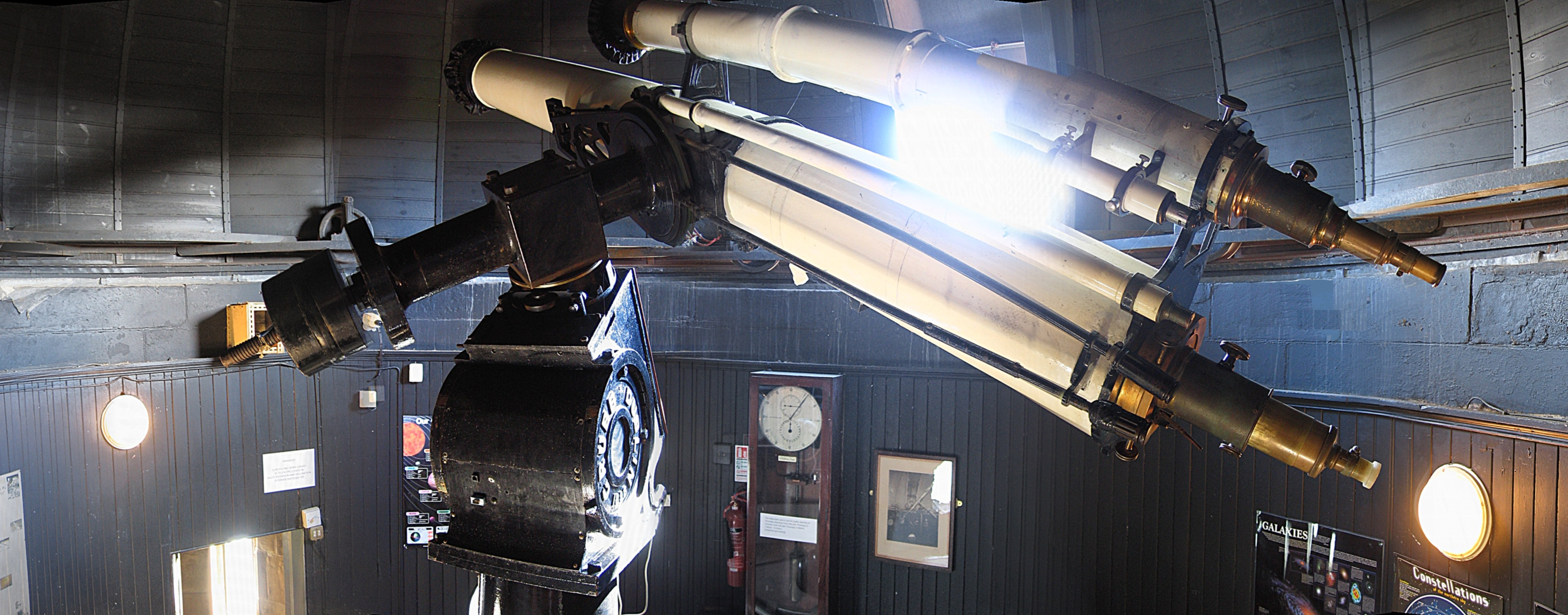 This file was uploaded as part of a GLAMWiki partnership with Paisley Museum. You can find out more on the Museums Galleries Scotland project page. This tag does not indicate the copyright status of the attached work. A normal copyright tag is still required. See Commons:Licensing for more information.